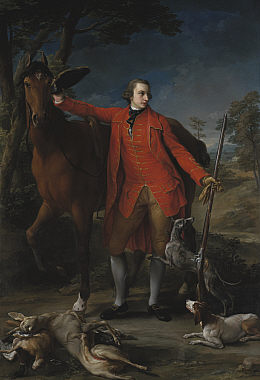 Portrait of Alexander Gordon, 4th Duke of Gordon (1743-1827)